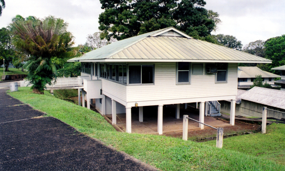 Another typical Canal Zone house: Bldg. 115 on Bolivar Highway, Gatun (Jan 2005).